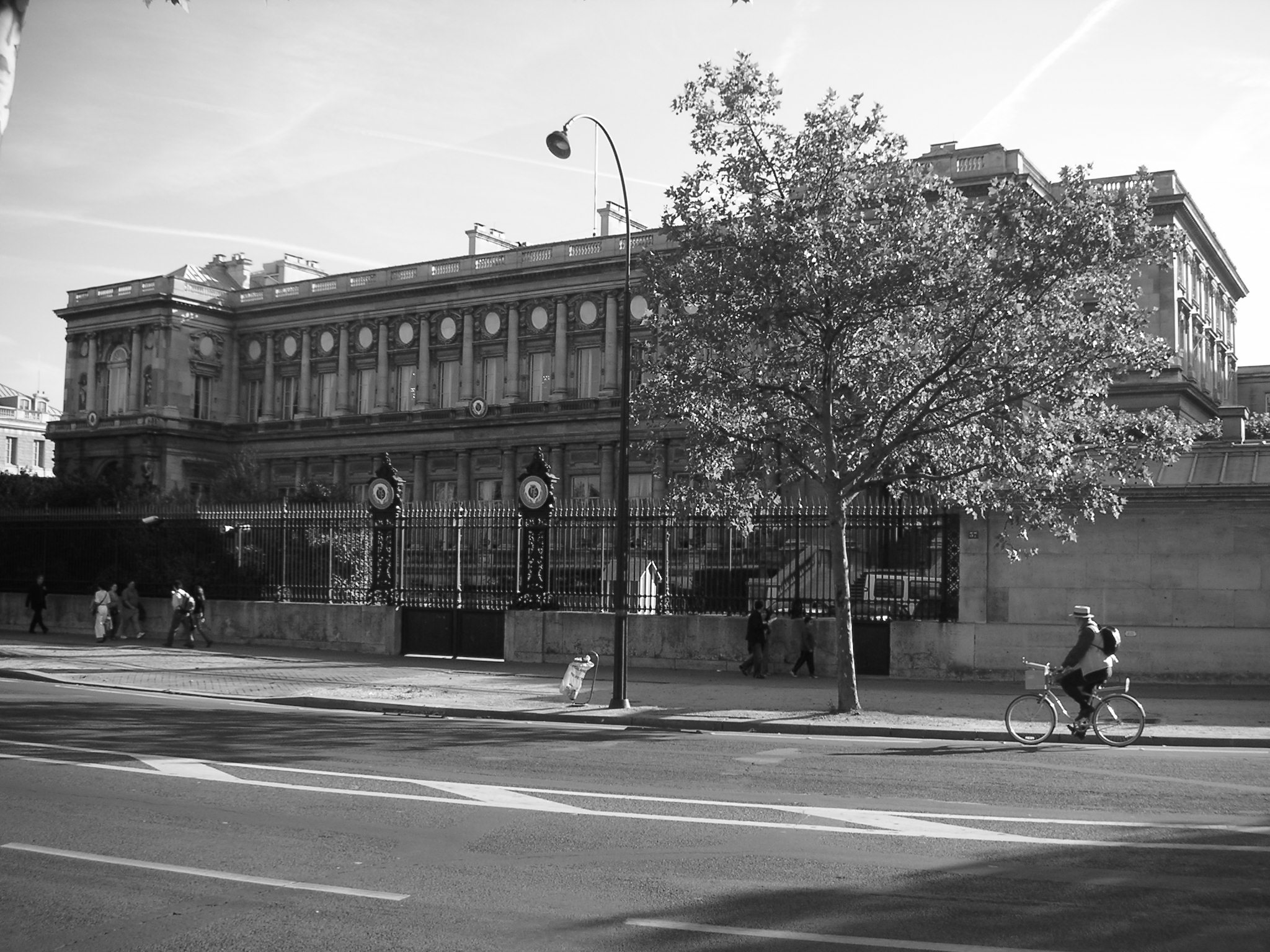 Quai d'Orsay (Paris). The Salon de l'Horloge. It was here that, on 1950, Robert Schuman gave the speech launching the plan for a European Coal and Steel Community.